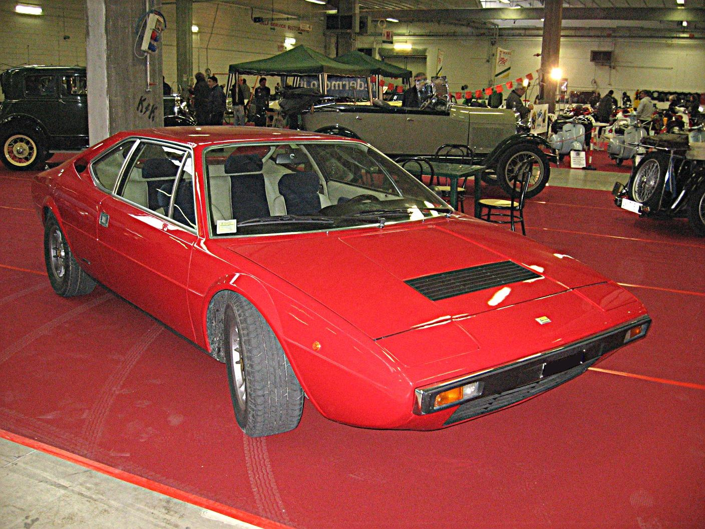 Subject:Ferrari Dino 208 GT4 Author:Luc106 Date:November 24th, 2007 Event:Markè-Retrò 2007 Place/country:Cesena (FC), Italy I release all rights in the public domain.